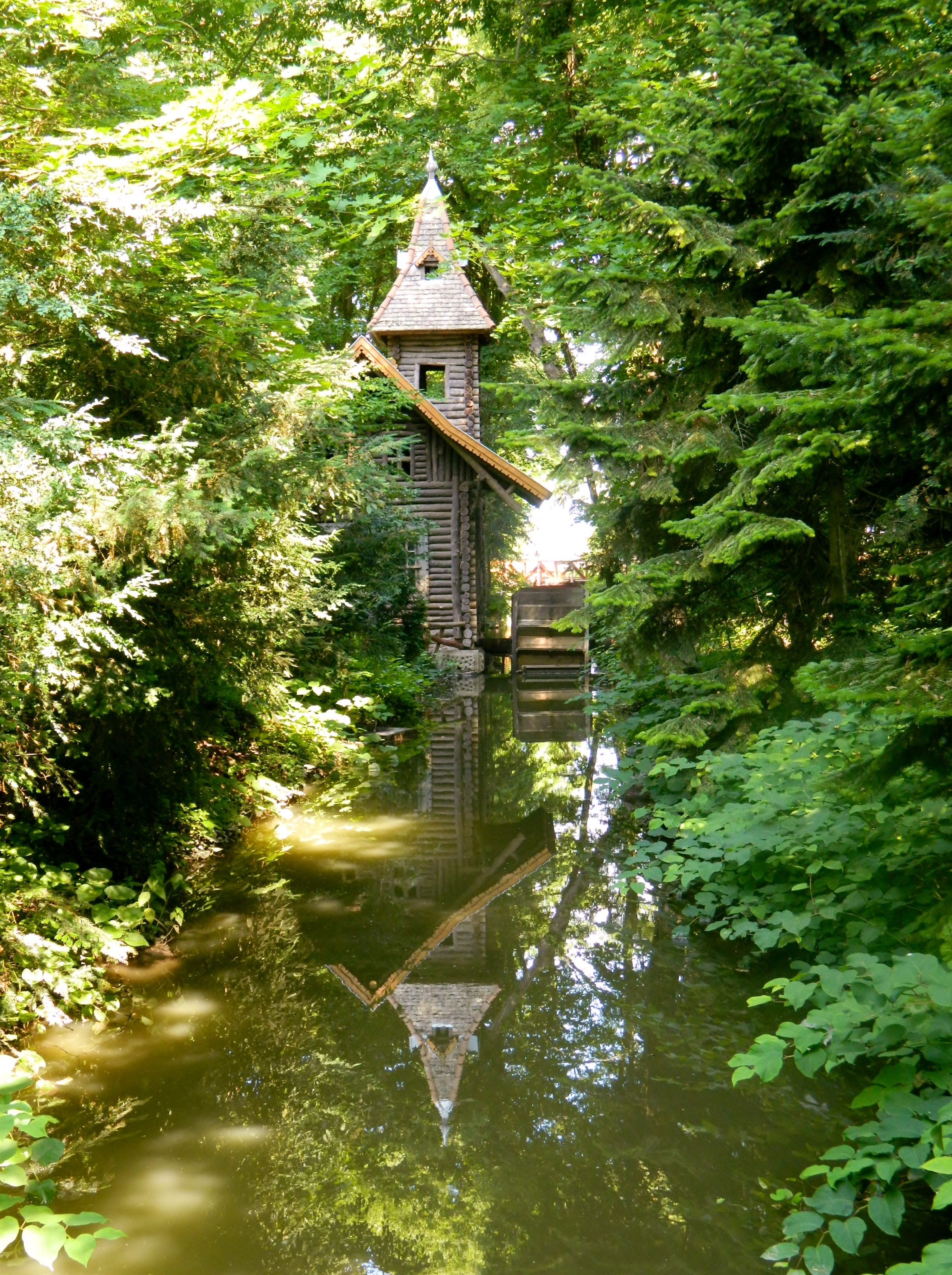 Musical mill in the Botanical Garden in Vácrátót